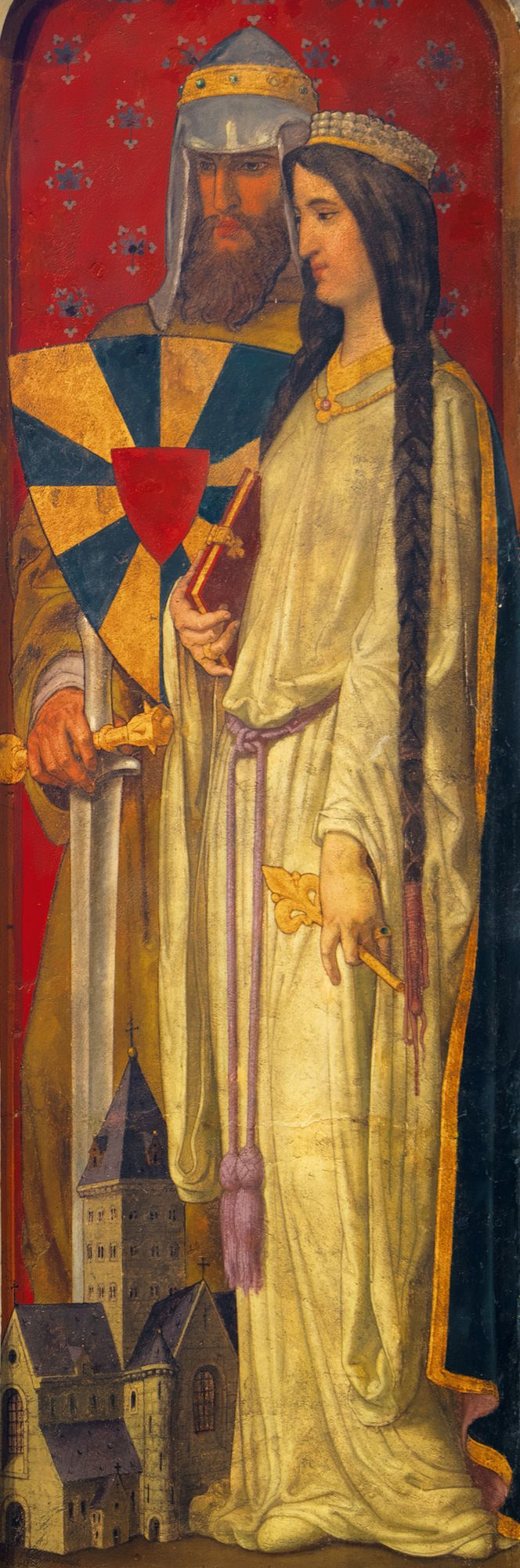 Baldwin V of Flanders and his wife Adela of France